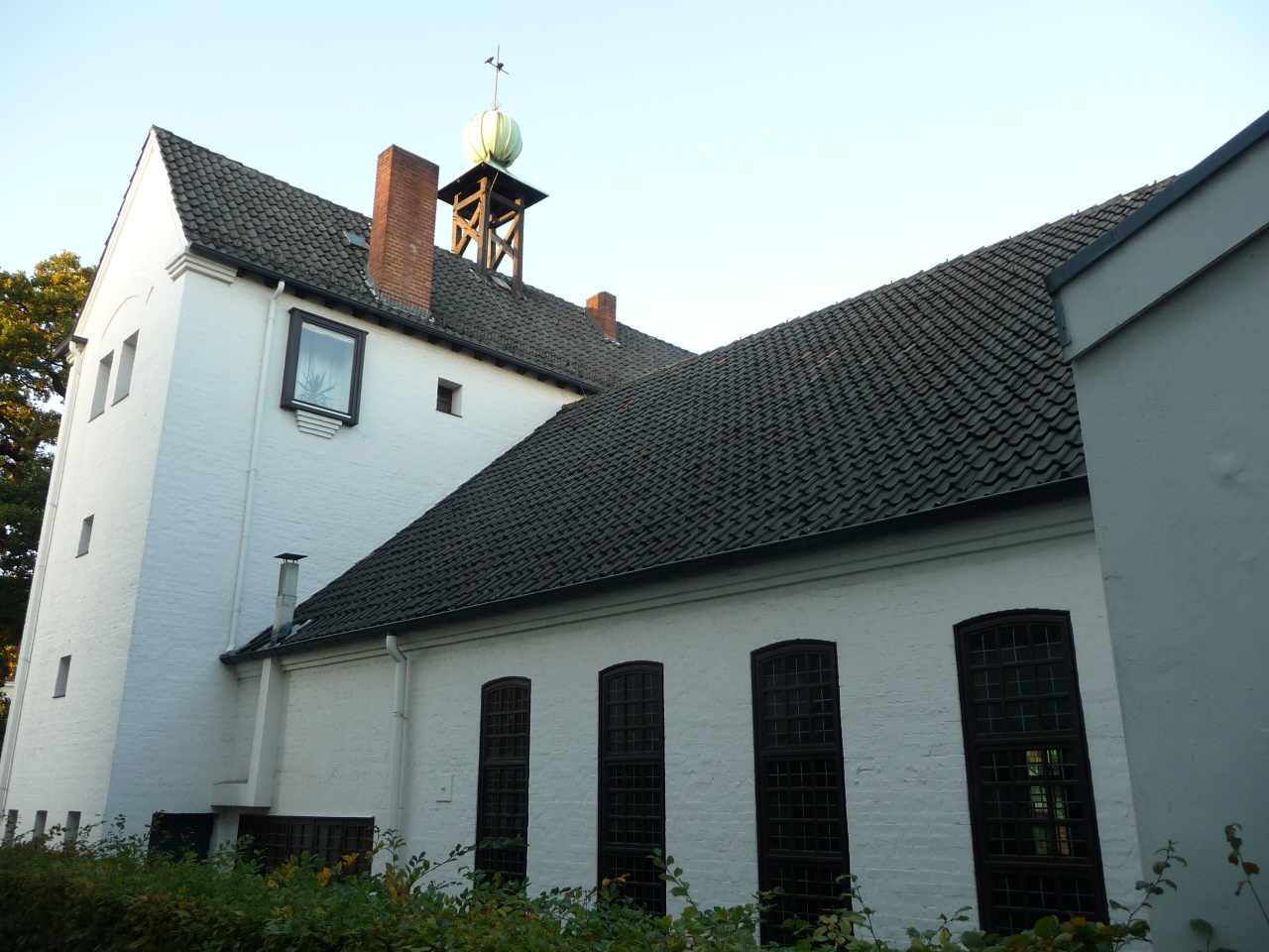 ev.-meth. church in Bremen-Schwachhausen